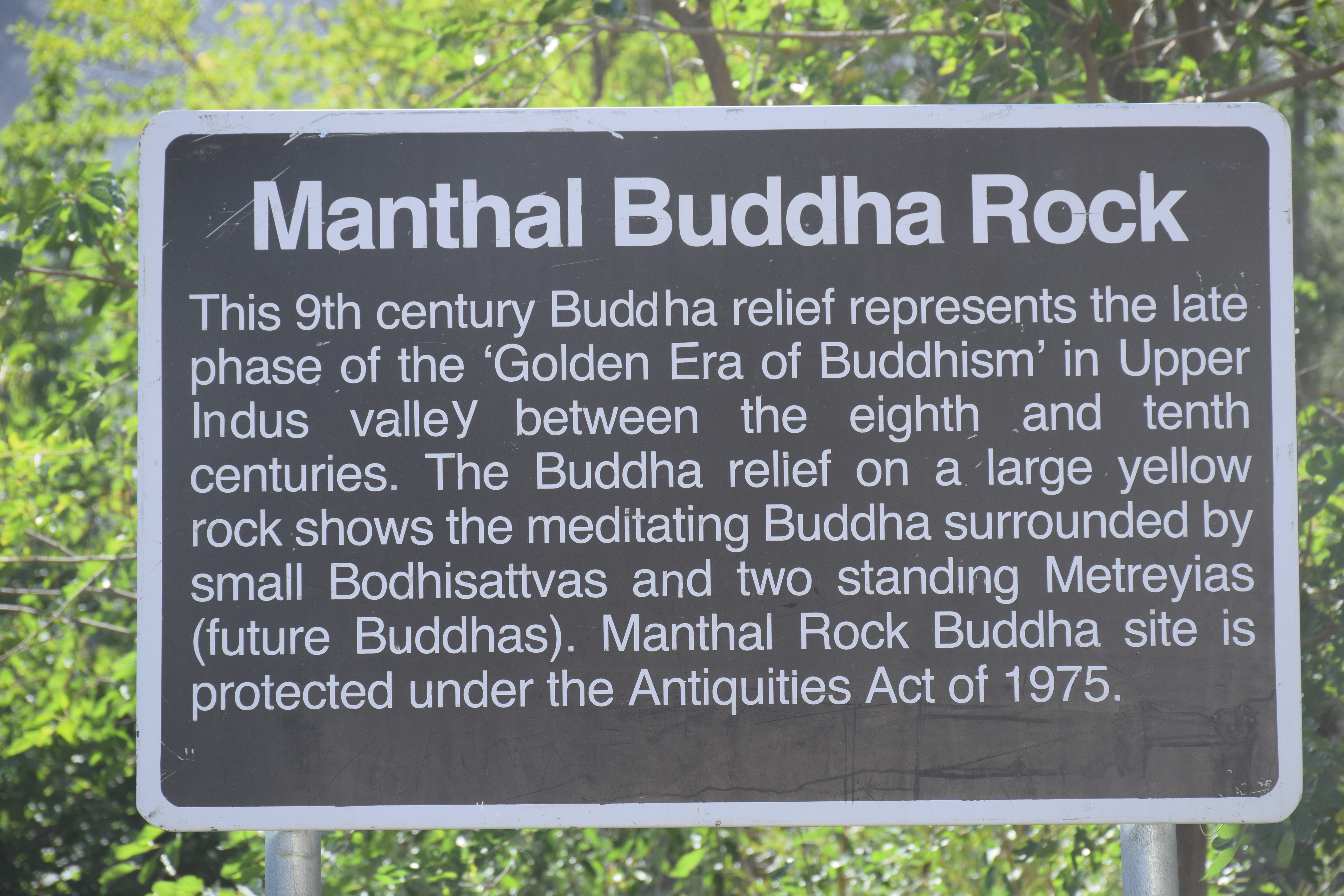 Manthal Rock (Buddhist inscriptions) This is a photo of a monument in Pakistan identified as the GB-23